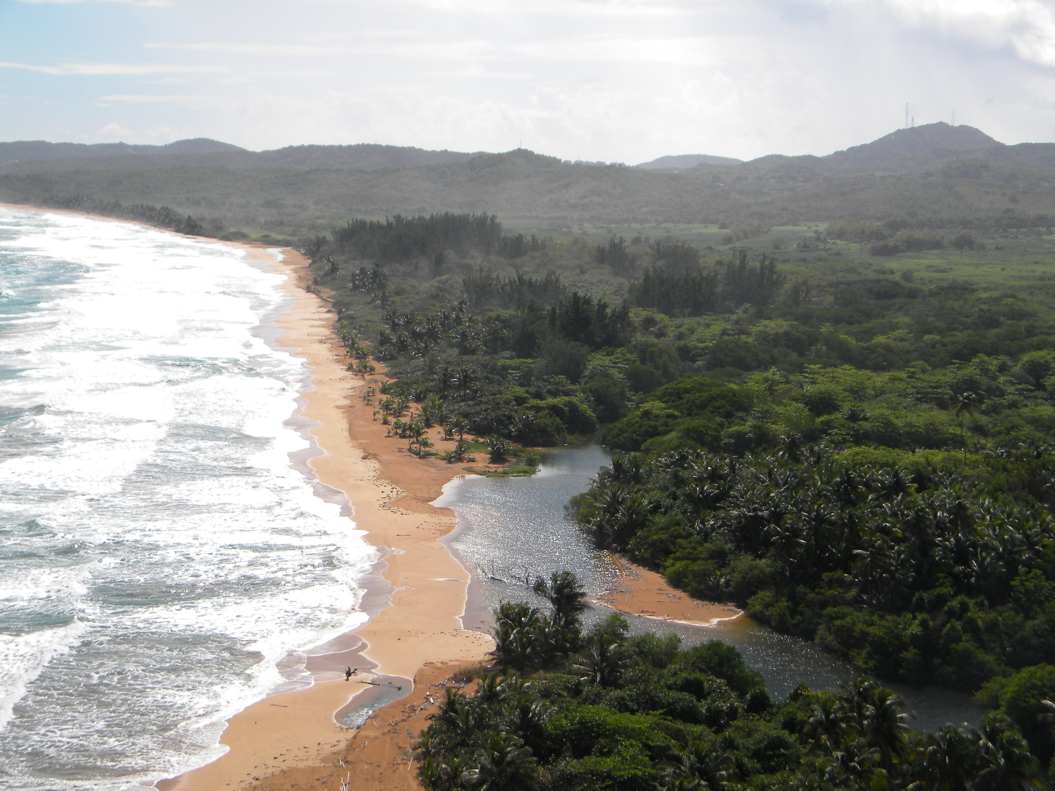 San Miguel Beach at the entrance of the Northeast Ecological Corridor. Photo taken from the Sandy Hills Condominium roof.